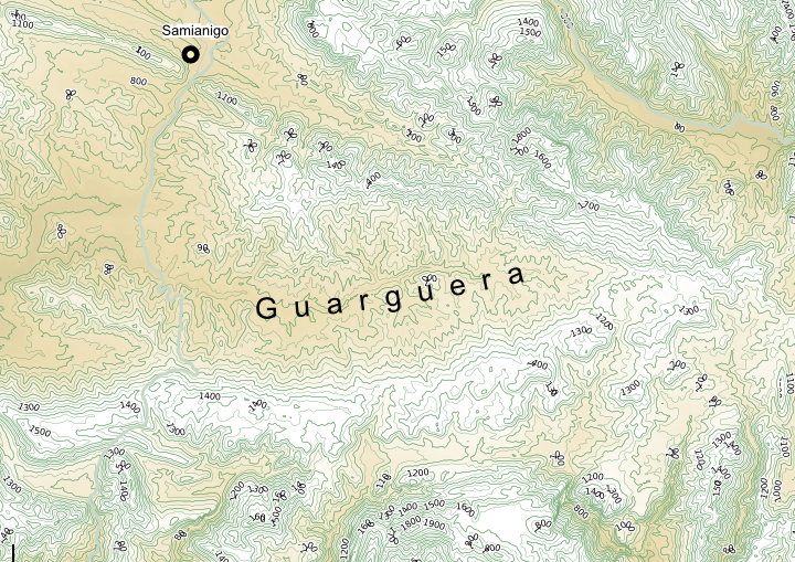 This map may be incomplete, and may contain errors. Don't rely solely on it for navigation.